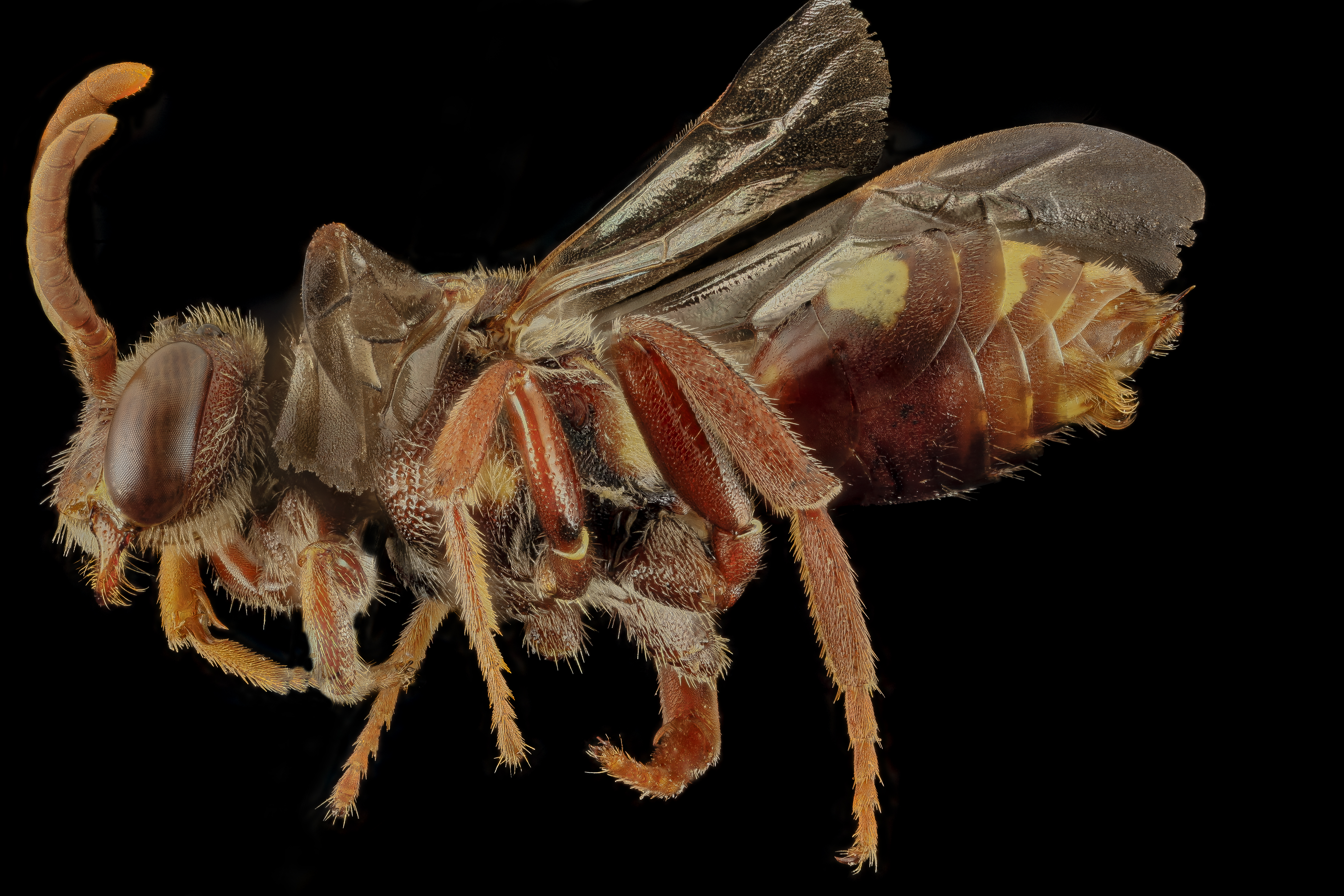 First Maryland record for this species. A possible nest parasite of Andrena wilkella. Picked up at Andelot Farm in Kent County Maryland. Canon Mark II 5D, Zerene Stacker, Stackshot Sled, 65mm Canon MP-E 1-5X macro lens, Twin Macro Flash in Styrofoam Cooler, F5.0, ISO 100, Shutter Speed 200, link to a .pdf of our set up is located in our profile